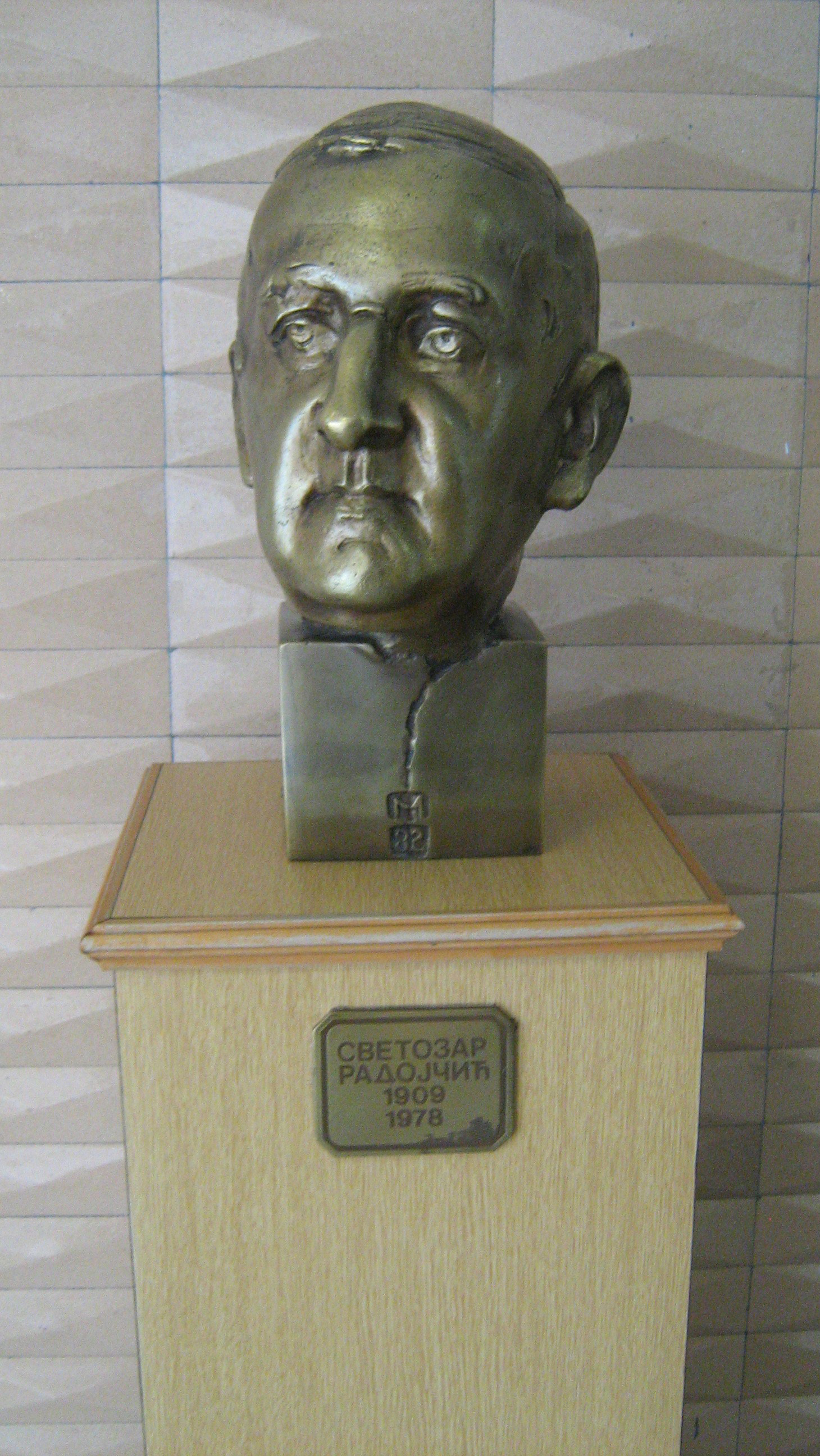 University of Belgrade, Faculty of Philosophy, Nebojša Mitrić „Svetozar Radojčić Bust“